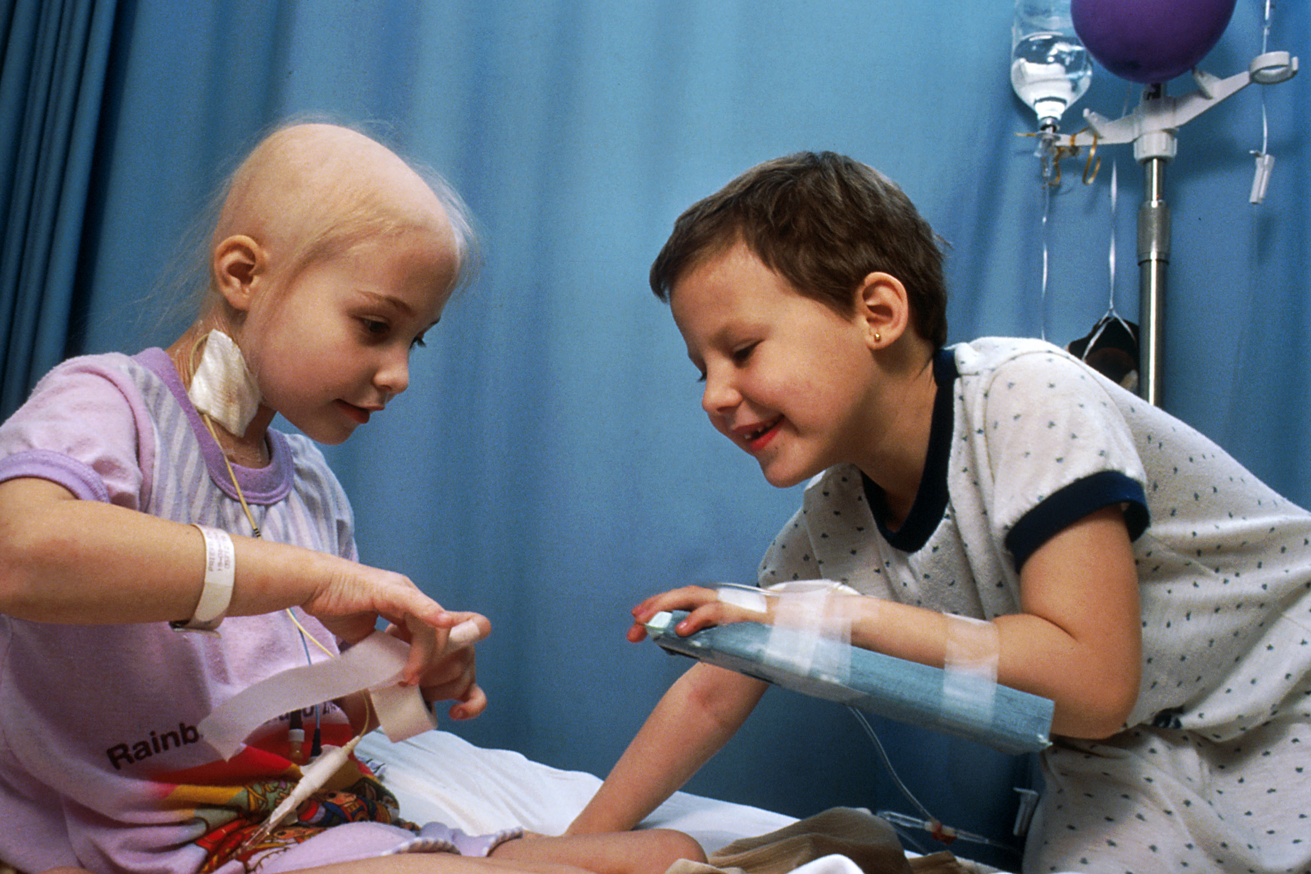 Title Pediatric Patients Receiving Chemotherapy Description Two young girls with acute lymphocytic leukemia (ALL) receiving chemotherapy. They are sitting on a bed and are demonstrating some of the procedures and techniques used with intravenous chemotherapy. The girl on the left has an IV tube in the neck, the other girl's IV is in her arm, which has an arm board which stabilizes the arm for IV needle insertion. Topics/Categories People -- Child People -- Patients Treatment -- Chemotherapy Type Color, Photo Source National Cancer Institute